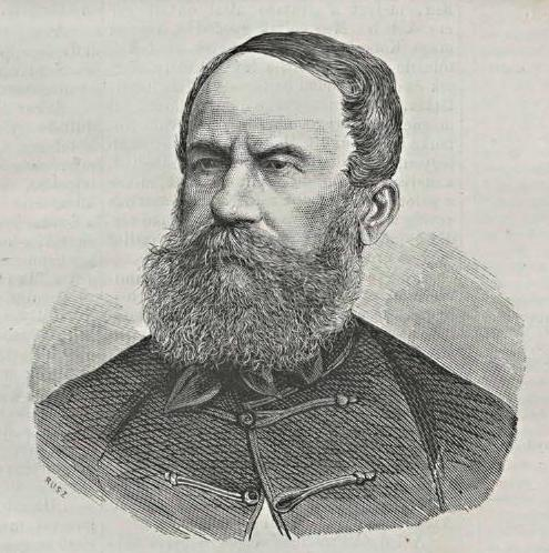 Portrait of Zsigmond Beöthy